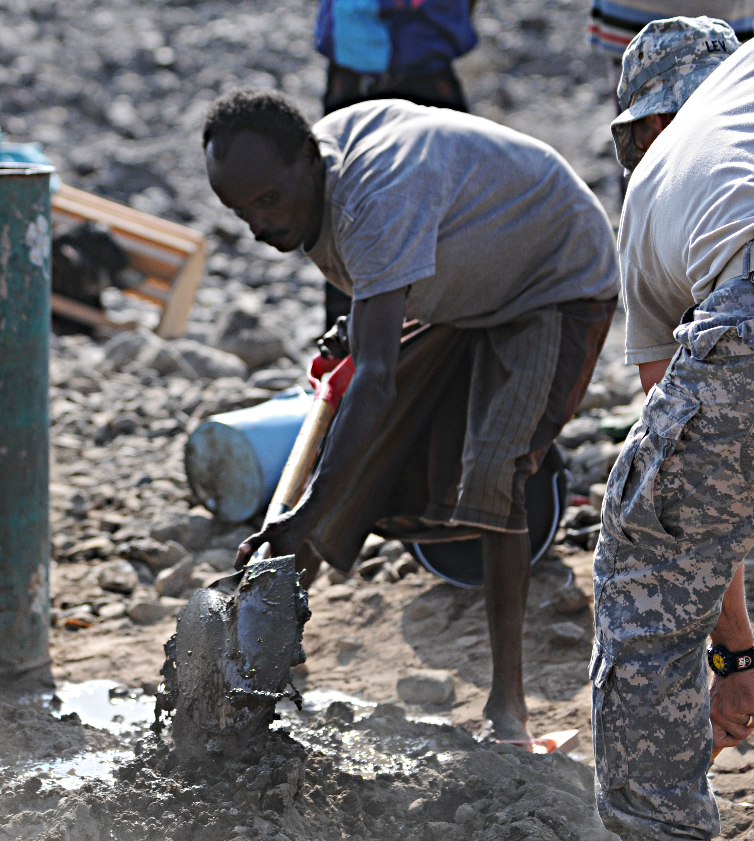 Mohamed Hamodu, a villager serving as the deputy foreman for the eco-dome construction, mixes dirt, water and cement with U.S. Army Captain Justin Lev, team chief of Civil Affairs Team 4902, 490th Civil Affairs Battalion, at the eco-dome construction site in Karabti San, Djibouti, January 3. The team worked side-by-side with the Karabti San villagers to build the dome. (U.S. Air Force photo by Senior Airman Jarad A. Denton)